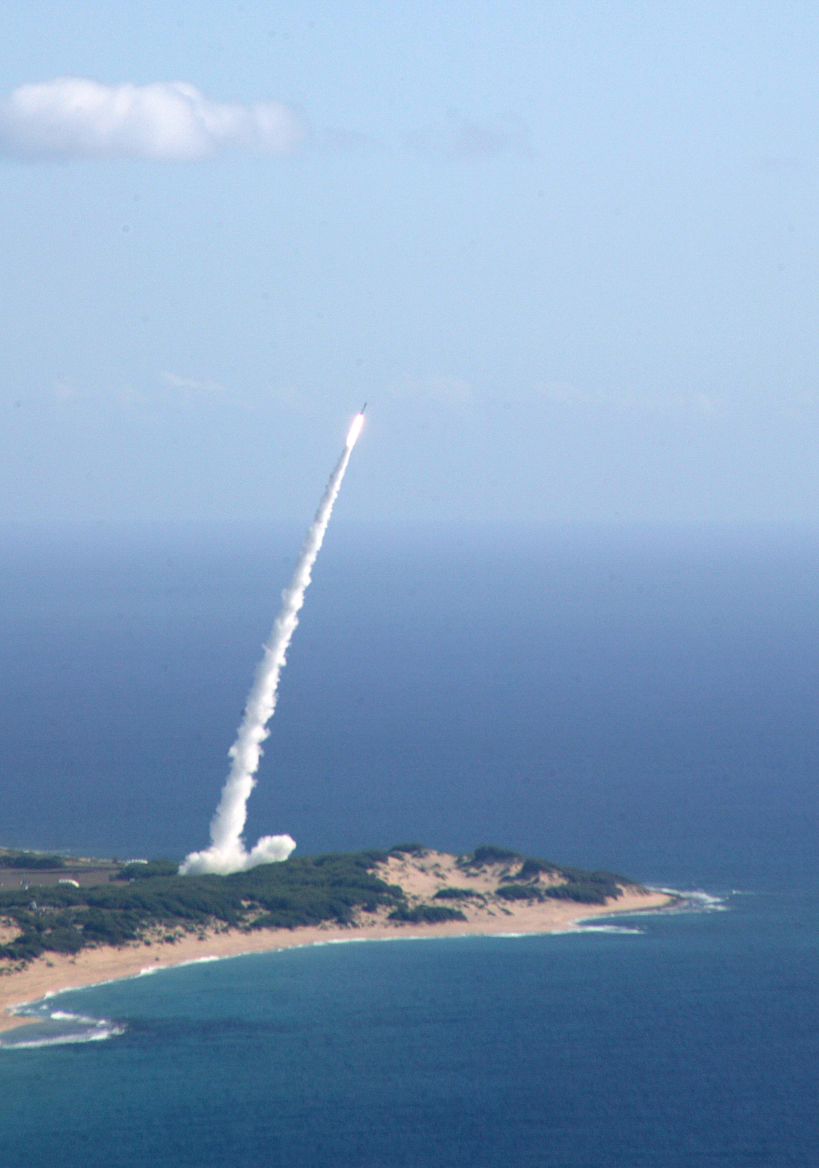 BARKING SANDS, Kauai, Hawaii (June 22, 2007) - A medium range ballistic missile with a separating target is launched from the Pacific Missile Range Facility. Minutes later, a Standard Missile (SM-3) was launched from the Aegis combat system equipped Arleigh Burke-class destroyer USS Decatur (DDG-73), successfully intercepting the ballistic missile threat target. It was the first time such a test was conducted from a ballistic missile defense equipped-U.S. Navy destroyer. The previous flight tests were conducted from U.S. Navy cruisers. The maritime capability is designed to intercept short to intermediate-range ballistic missile threats in the midcourse phase of flight.